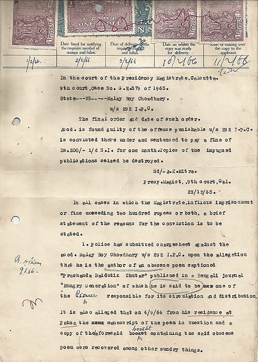 The court sentence for the poem Prochondo Boidyutik Chhutar